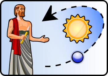 A logo for WikiProject Alternative Views.